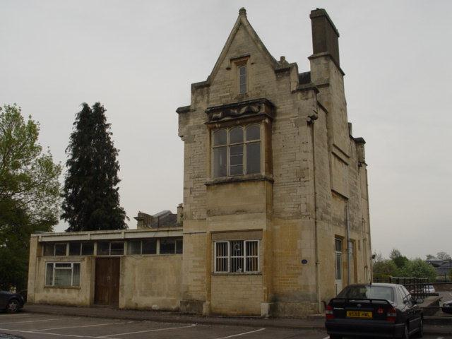 Former Cirencester Town railway station Kemble to Cirencester G.W branch (1841 - 1964) this building is believed to have been designed by Isambard Kingdom Brunel.